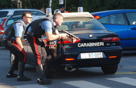 Italian Carabinieri during training.